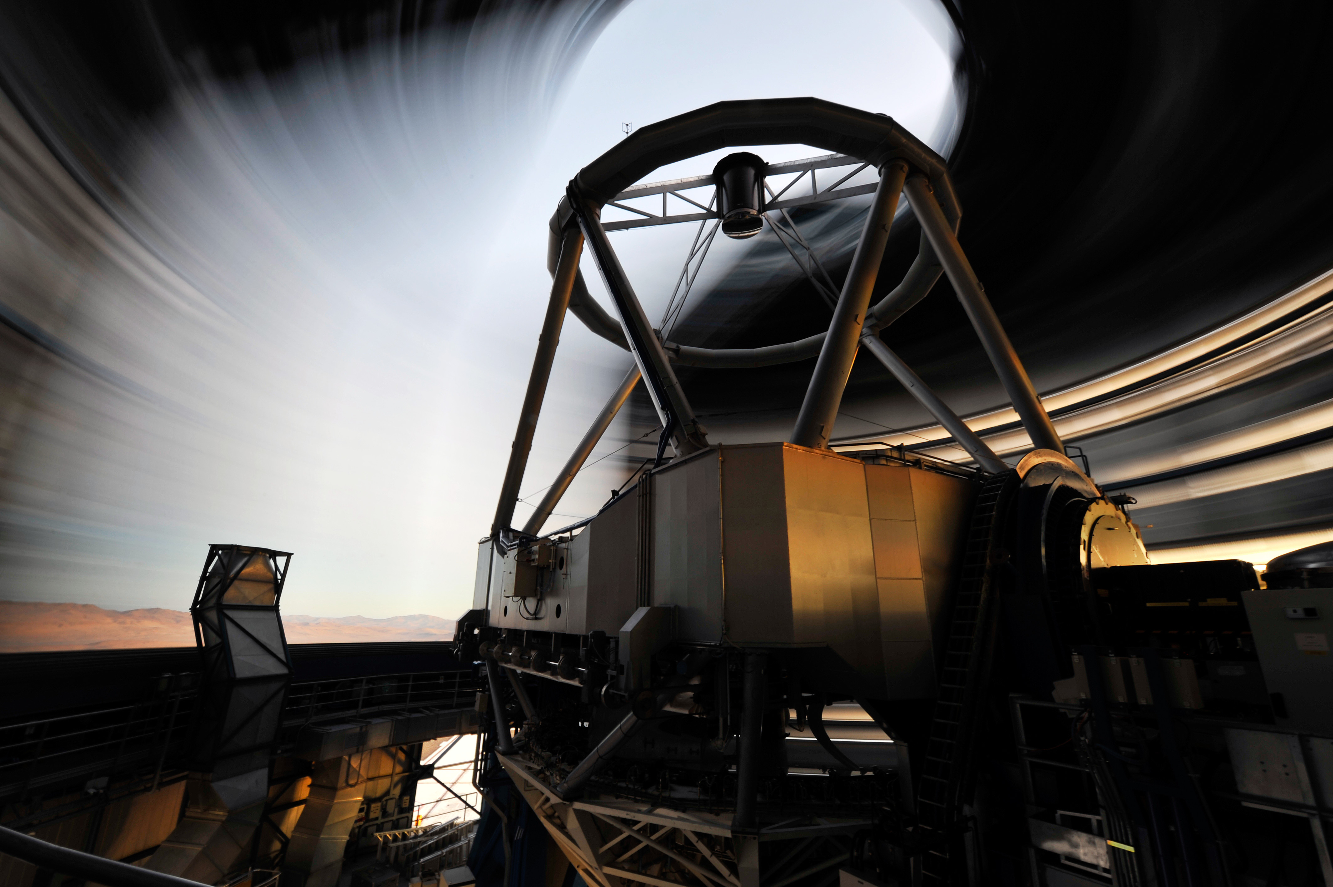 The dynamism of ESO's Very Large Telescope in operation is wonderfully encapsulated in this unusual photograph, taken just after sunset at the moment Unit Telescope 1 starts work. An extended exposure time of 26 seconds has allowed ESO Photo Ambassador Gerhard Hüdepohl to record the movement of the dome, looking out through the opening from within, as the system swings into action. The rotating walls of the dome look like an ethereal swirl through which a slice of the Atacama Desert can be glimpsed, while the crisp dusk sky provides a splash of cool blue. The telescope structure, seen stationary in the centre of the image, houses a mirror 8.2 metres in diameter, designed to collect light from the far reaches of our Universe. The dome itself is also an engineering marvel, moving with extreme precision and allowing for careful temperature control lest warm air currents disrupt observations.